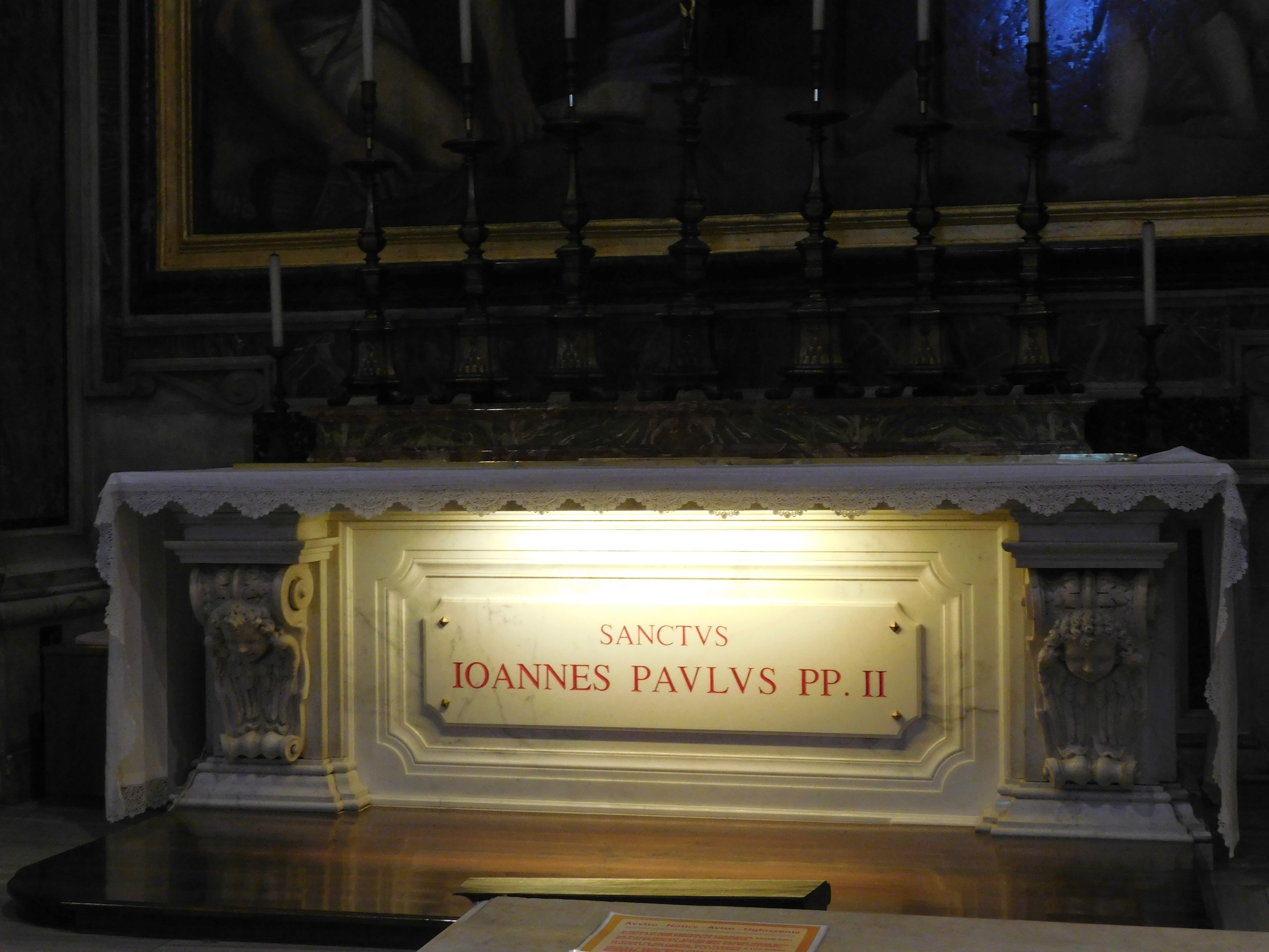 The Papal Basilica of St. Peter in the Vatican